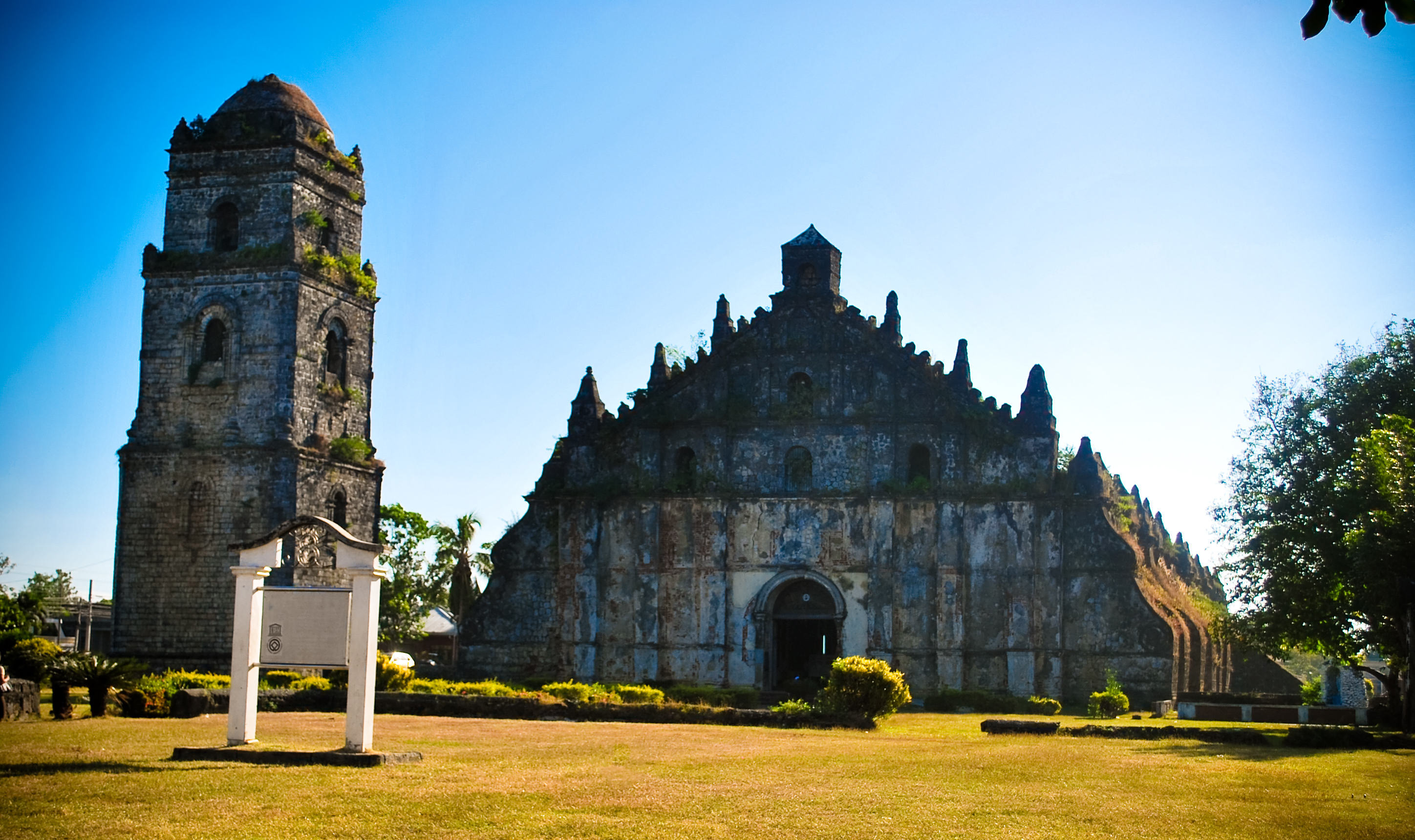 Façade of Paoay Church.